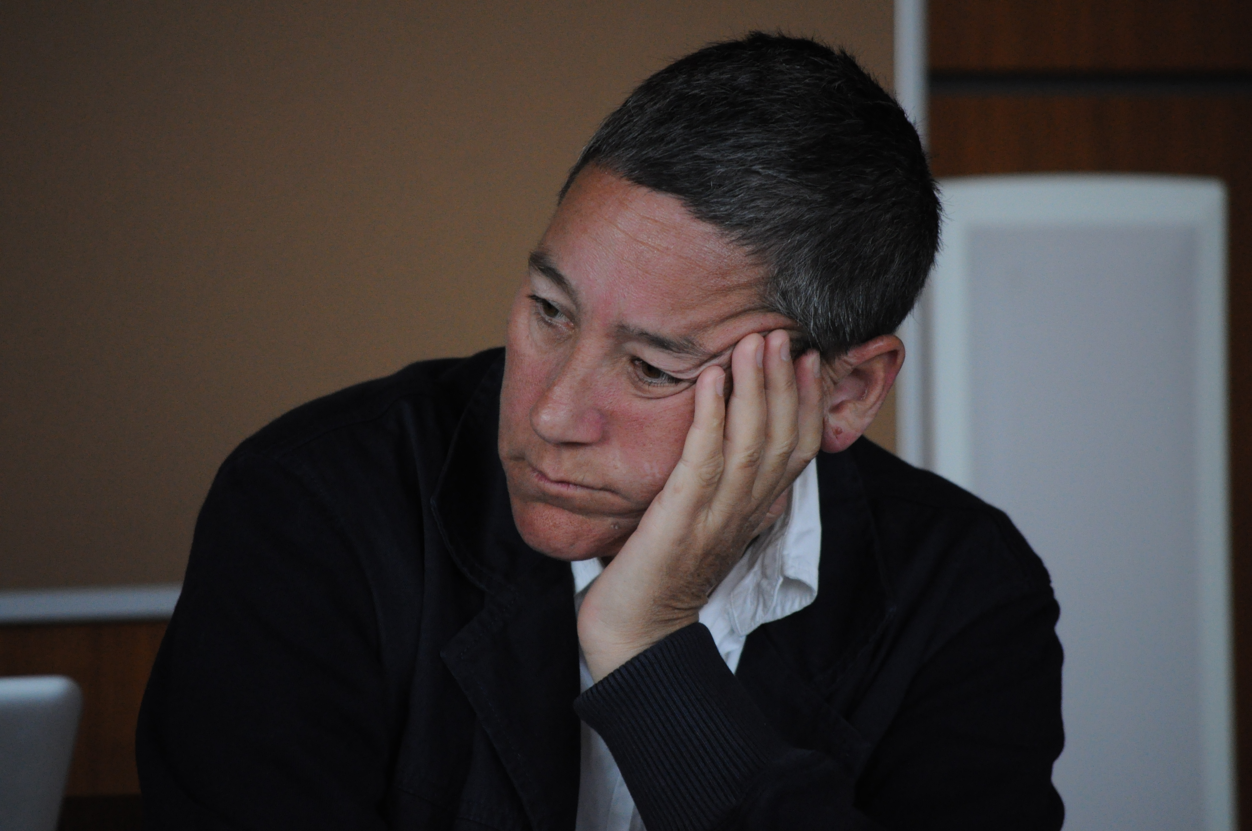 Judith/Jack Halberstam at Work It! a conference at USC on gender, race, and sexuality in pop music professions presented in association with the 2011 Pop Conference at UCLA.